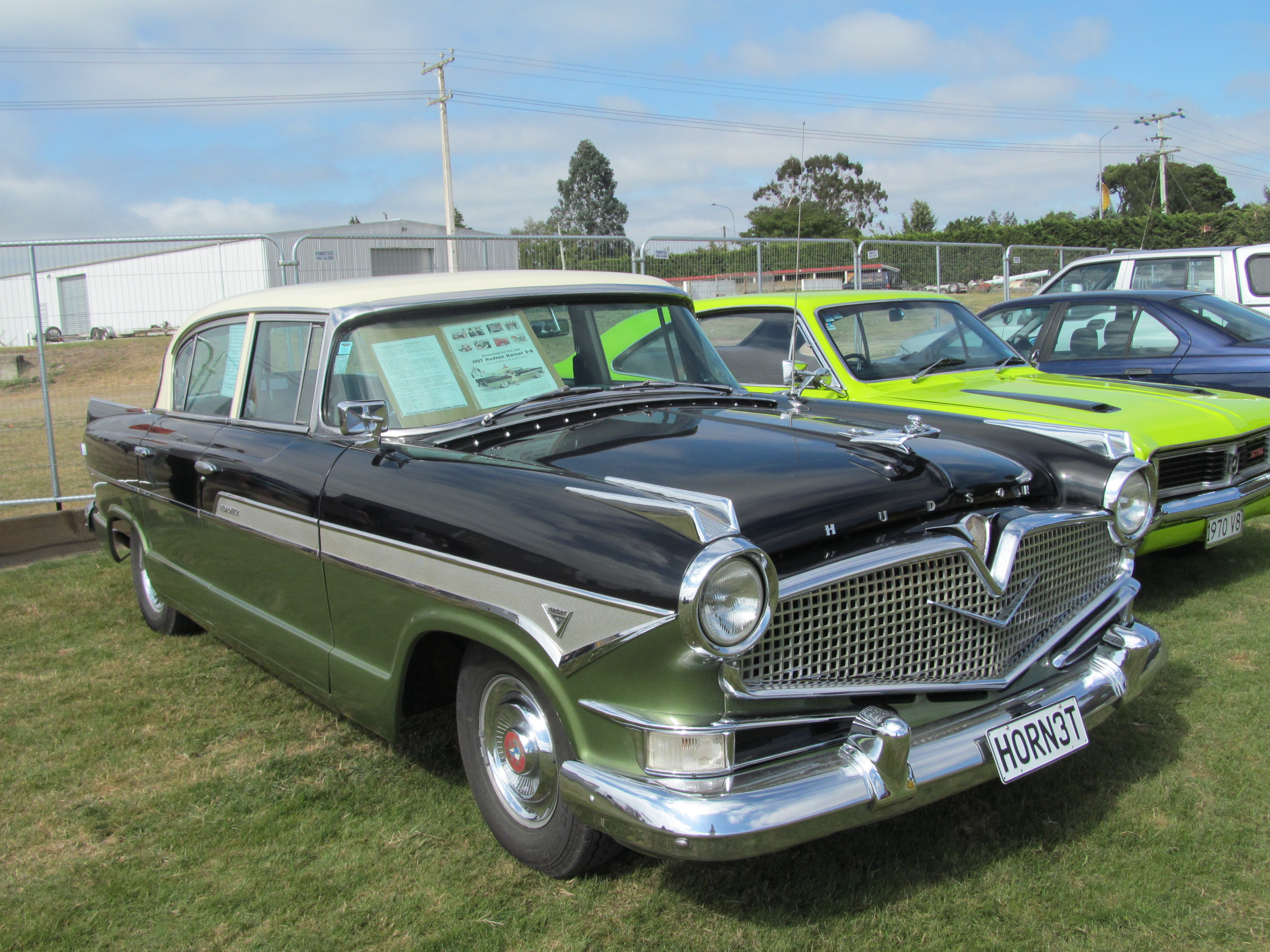 An astonishingly rare and imposing vehicle here, in immaculate condition. This car has been well documented by Graham (KiwiGippy) who first photographed it in Christchurch in the 1960s, and an interesting discussion ensued which you can access from the link below.